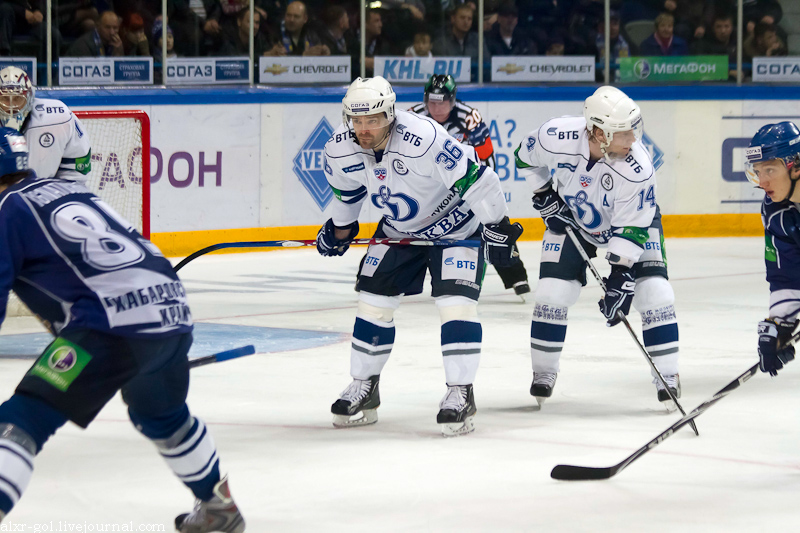 HC Dynamo Moscow players Jakub Klepiš (at center) and Filip Novák (to the right from him) during KHL game against Amur Khabarovsk on November 1, 2011.